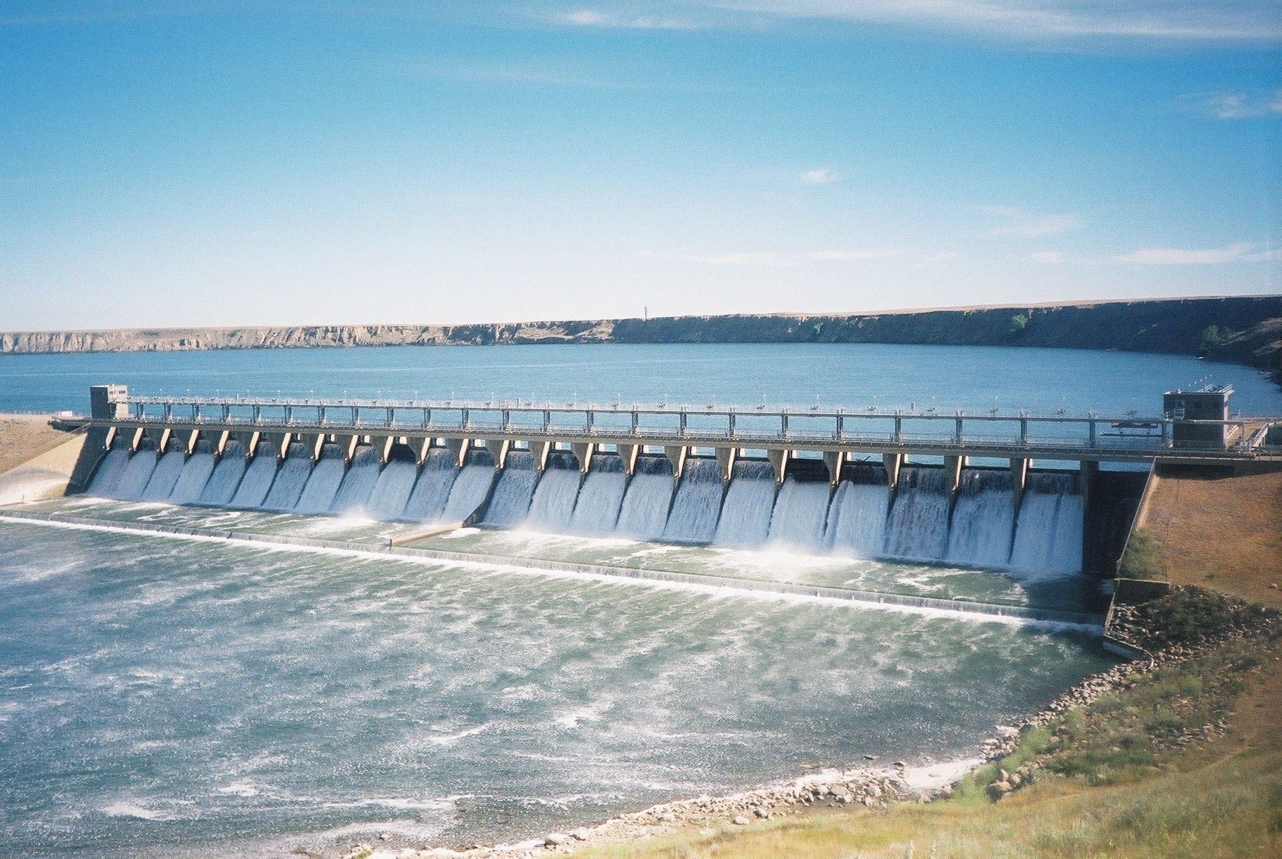 This is a photo of the dam located near Bassano, Alberta, Canada. author: Mark Steel source: photographed and scanned by author date photo taken: August 5th, 2004